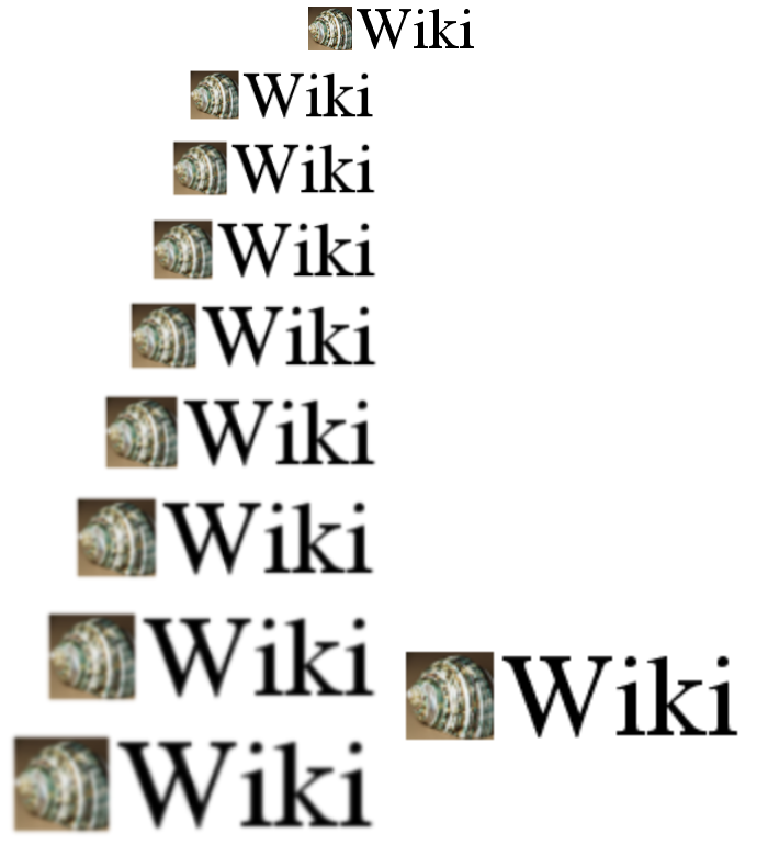 Comparison bilinear stairstep scaling on the one hand (10% steps) and direct bilinear image scaling (100%).